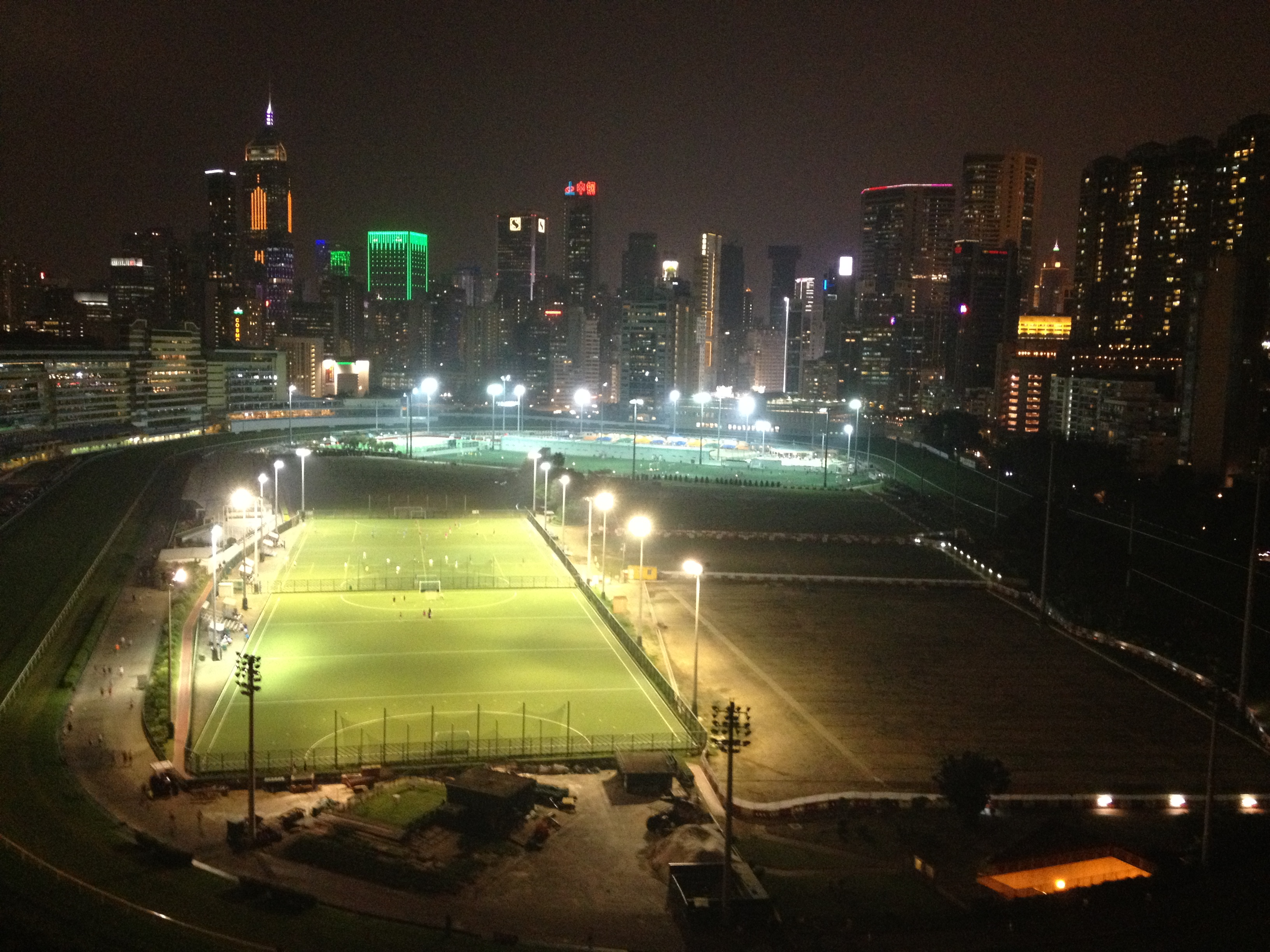 View of Happy Valley Racetrack at night from rooftop, Happy Valley, Hong Kong, Hong Kong.